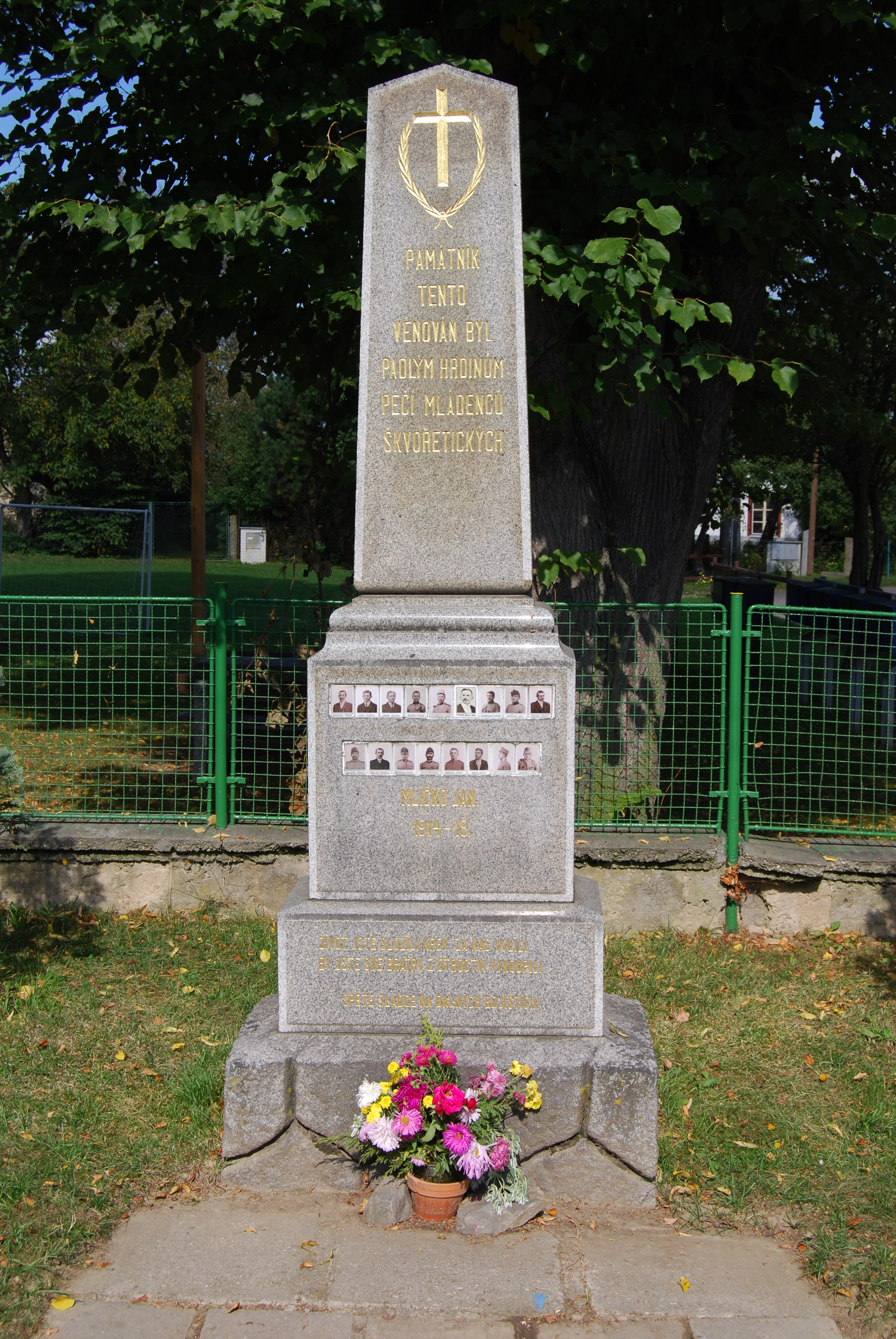 Škvořetice village in Písek District, Czech Republic. World War I memorial